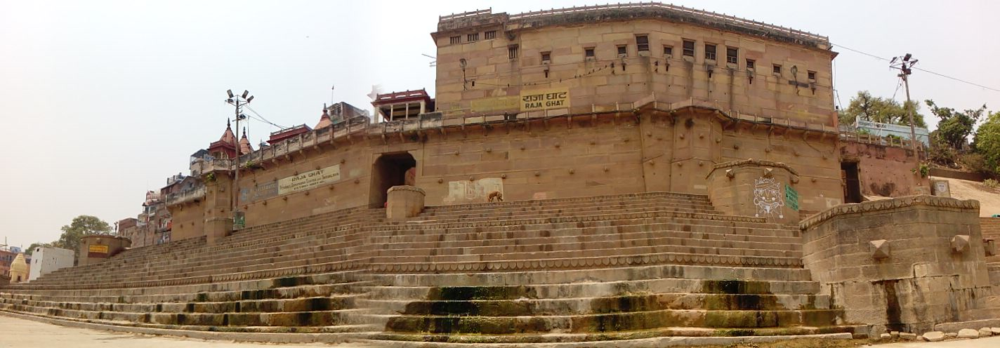 Raja Ghat (राजा घाट) - This huge palace kind of building was built by Maratha King Peshwa. Lord Shiv temples are situated on top of this posh building. During winter season cultural activities are organised.